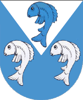 Coat of Arms of Padśville